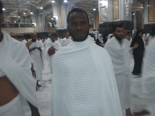 This picture of me was taken during 2011 Umrah